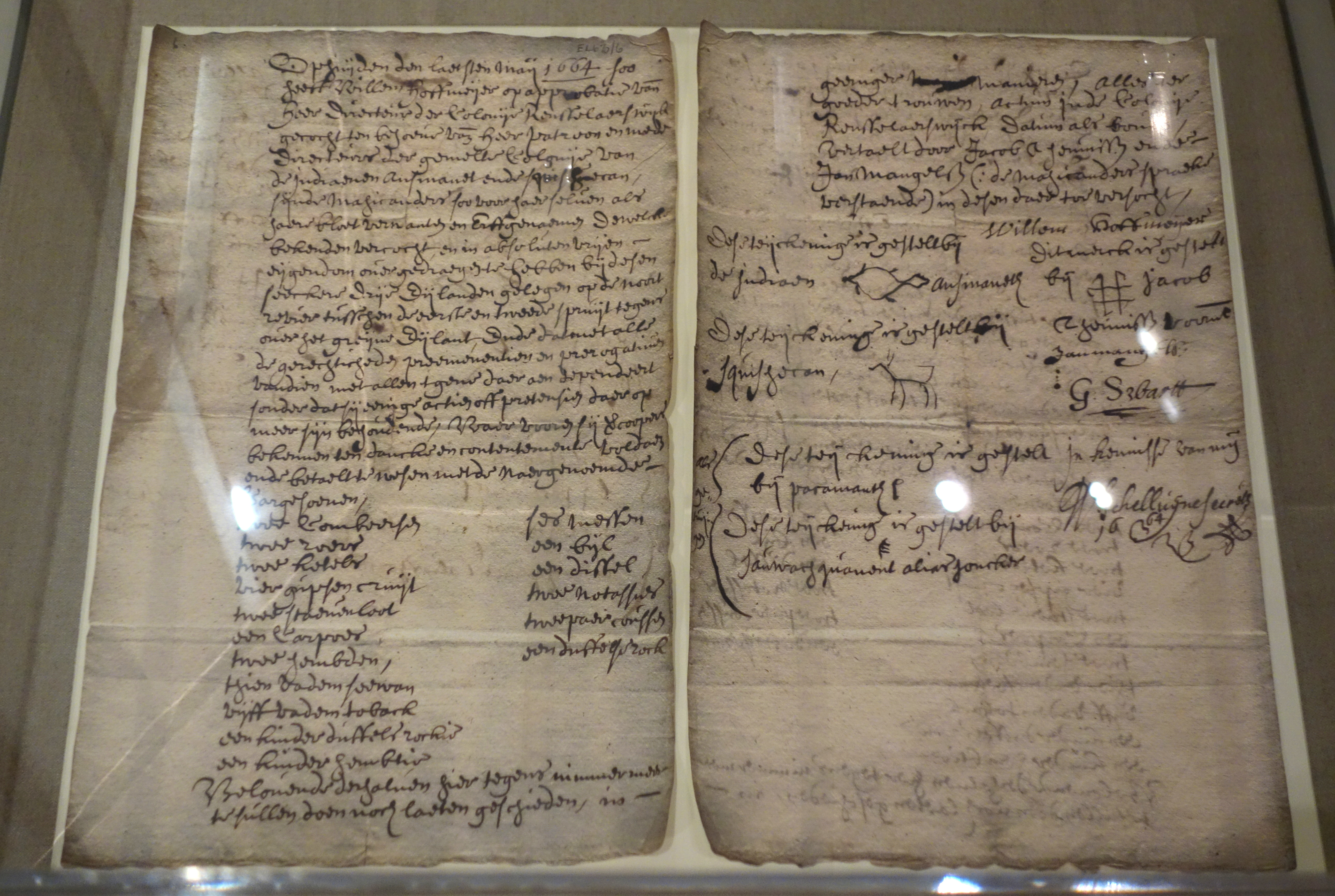 Exhibit in the Albany Institute of History and Art, Albany, New York, USA. This artwork is in the public domain because the artist died more than 70 years ago.